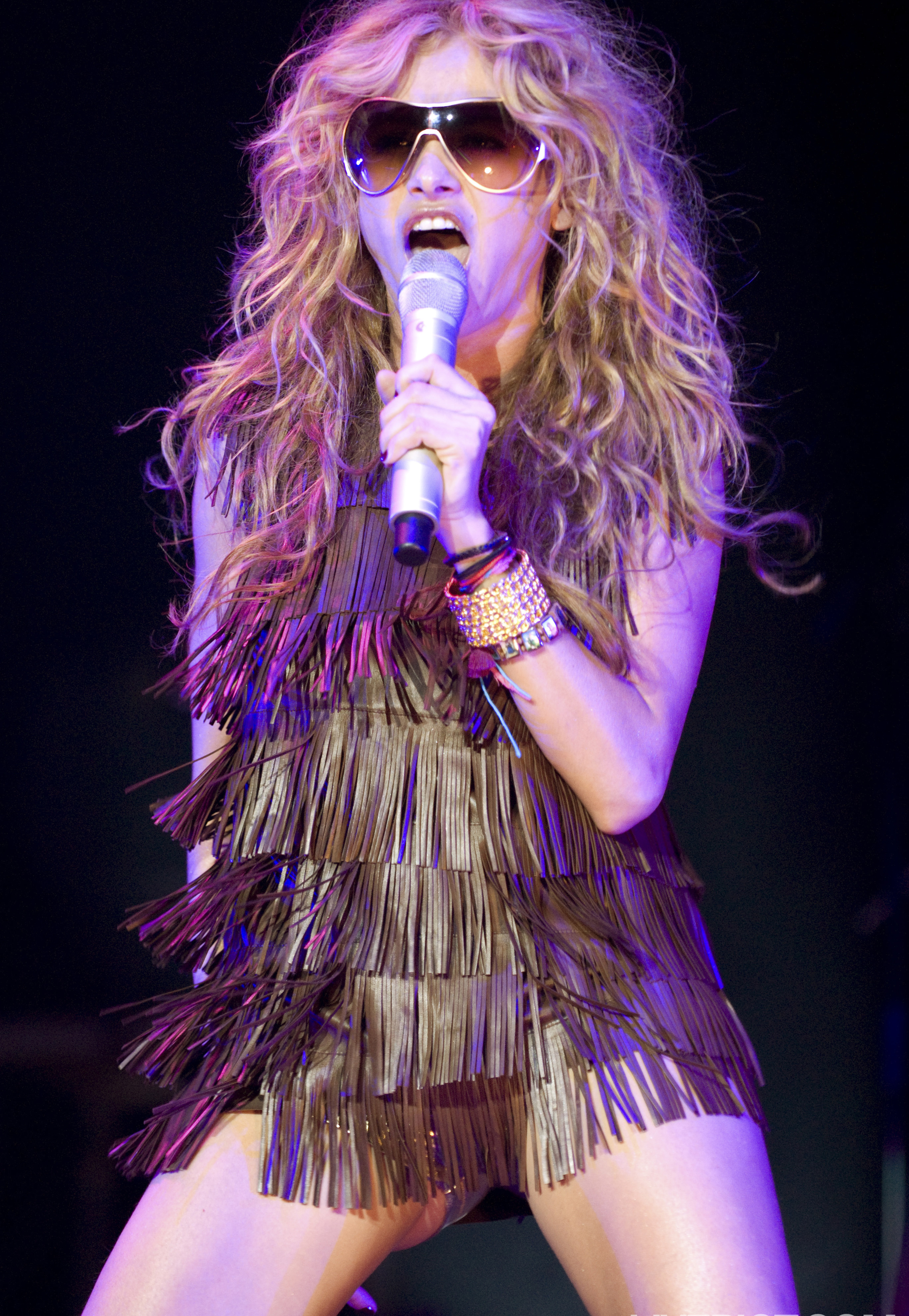 Paulina Rubio. Performing a live concert in the Asics Music Festival, Barcelona, October 2007.